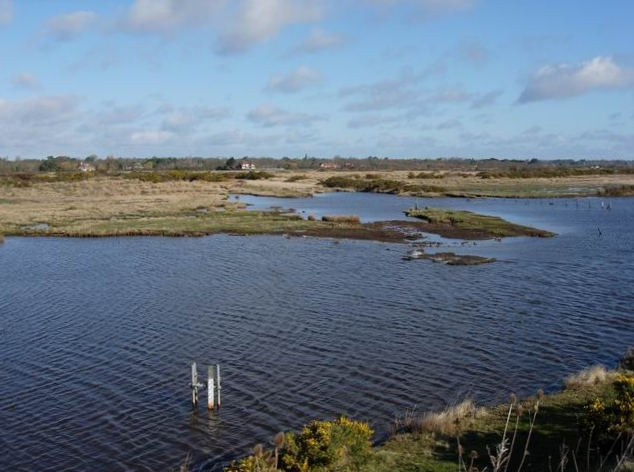 Pennington Marshes. More of the strip of marshland - similar to this from Lymington to Keyhaven